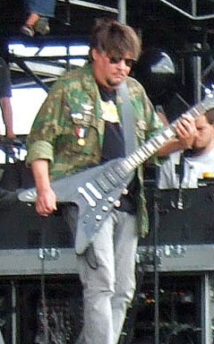 Guitarrist Ron Asheton and vocalist Iggy Pop from the band Stooges. Virgin Mobile Festival, Day 2, August 10th, 2008